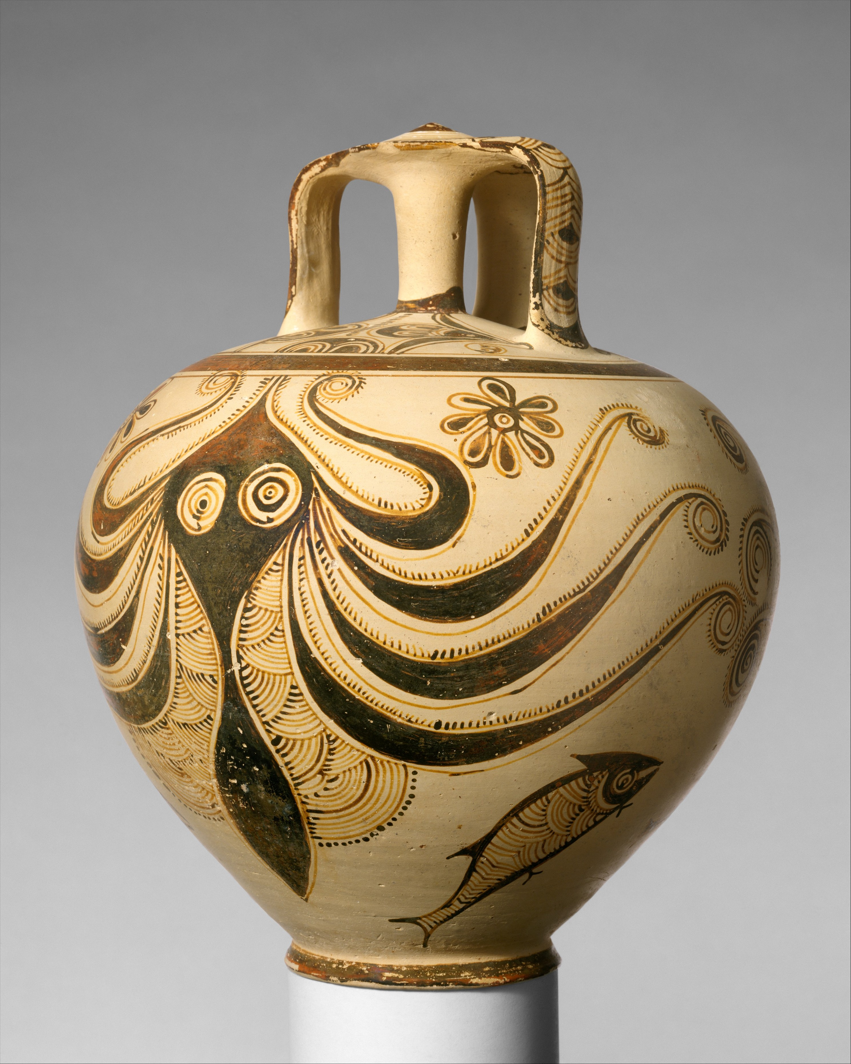 Helladic, Mycenaean; Stirrup jar with octopus; Vases